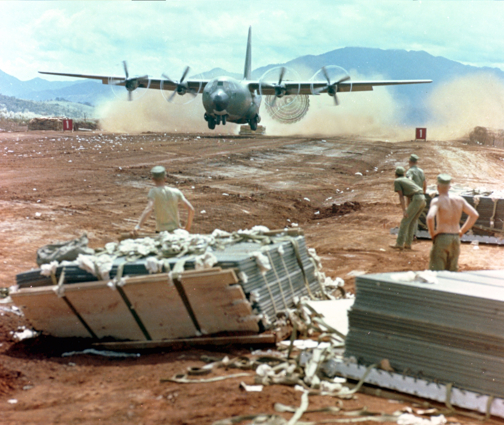 A U.S. Air Force Lockheed C-130B/E Hercules aircraft passes low over a drop zone in South Vietnam to deliver a pallet of supplies to ground forces in a forward area. The low altitude parachute extraction system (LAPES) was successfully used to resupply forward area sites where it was impossible for an aircraft to land.